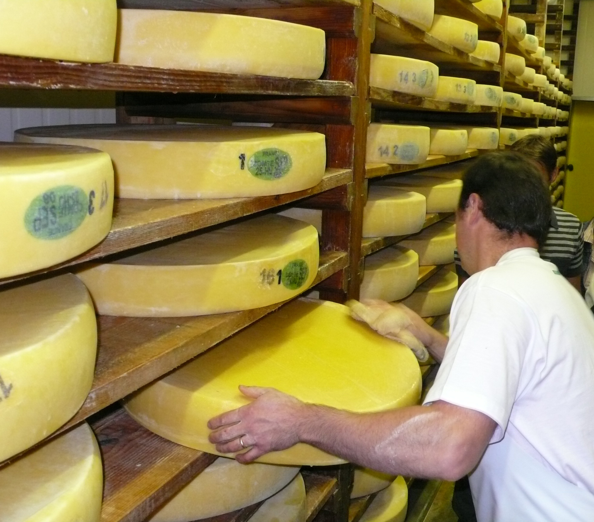 Inside the dairy of Fontain .